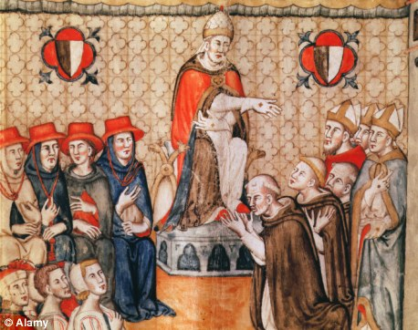 Pope Benedictus XI betwee cardinals and monks